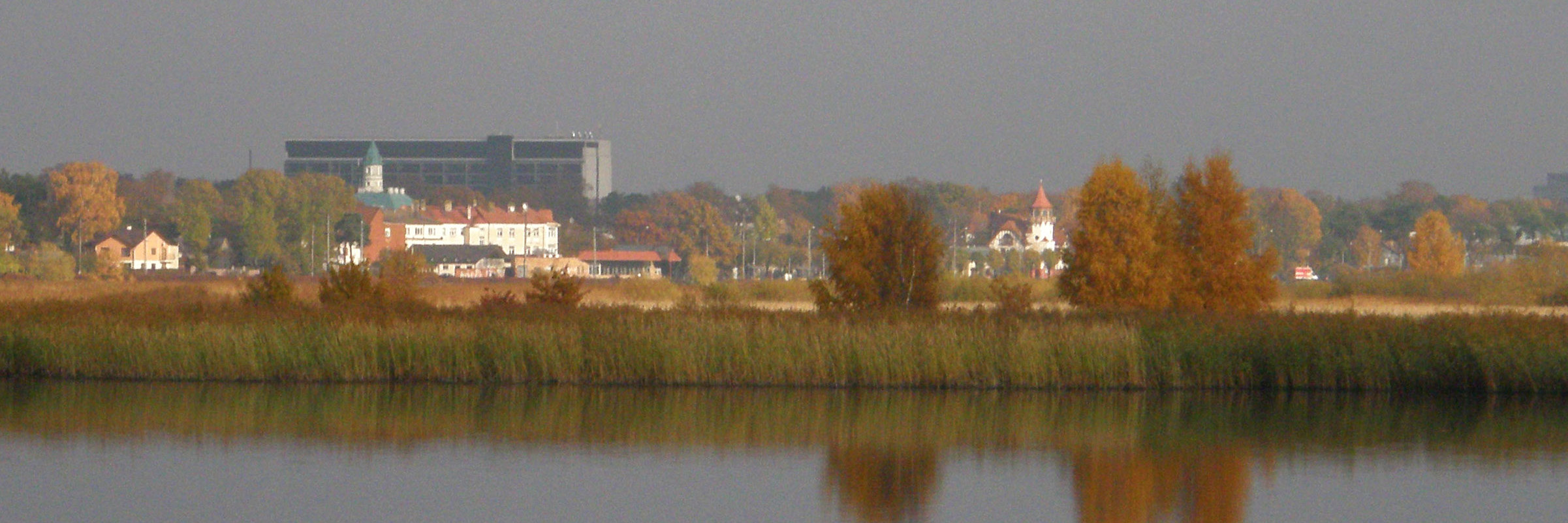 Jūrmala in fall